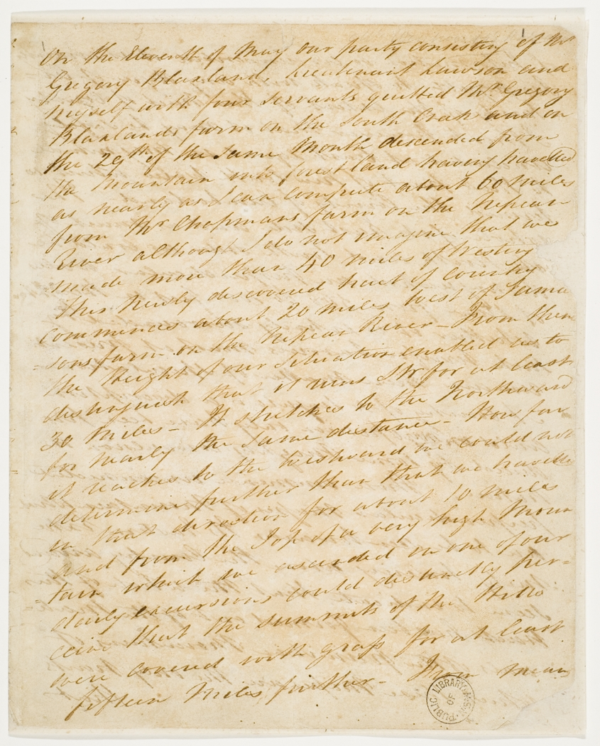 William Charles Wentworth - Journal of an expedition across the Blue Mountains, 11 May-6 June 1813